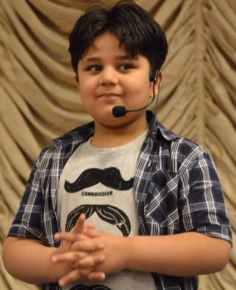 Zidane Hamid lecture on Secrets of Success in IST Creative Spark